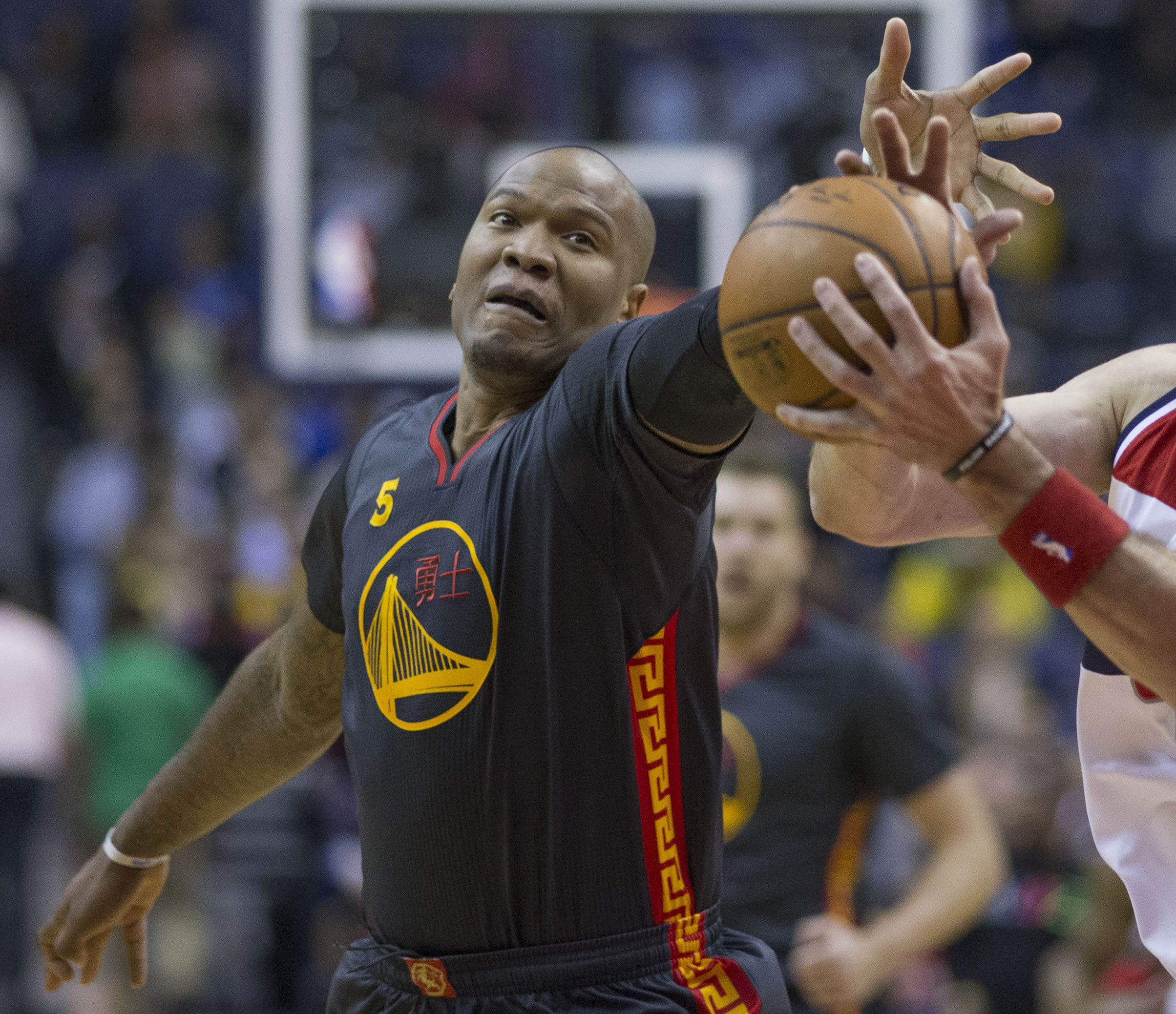 Warriors at Wizards 02/24/15